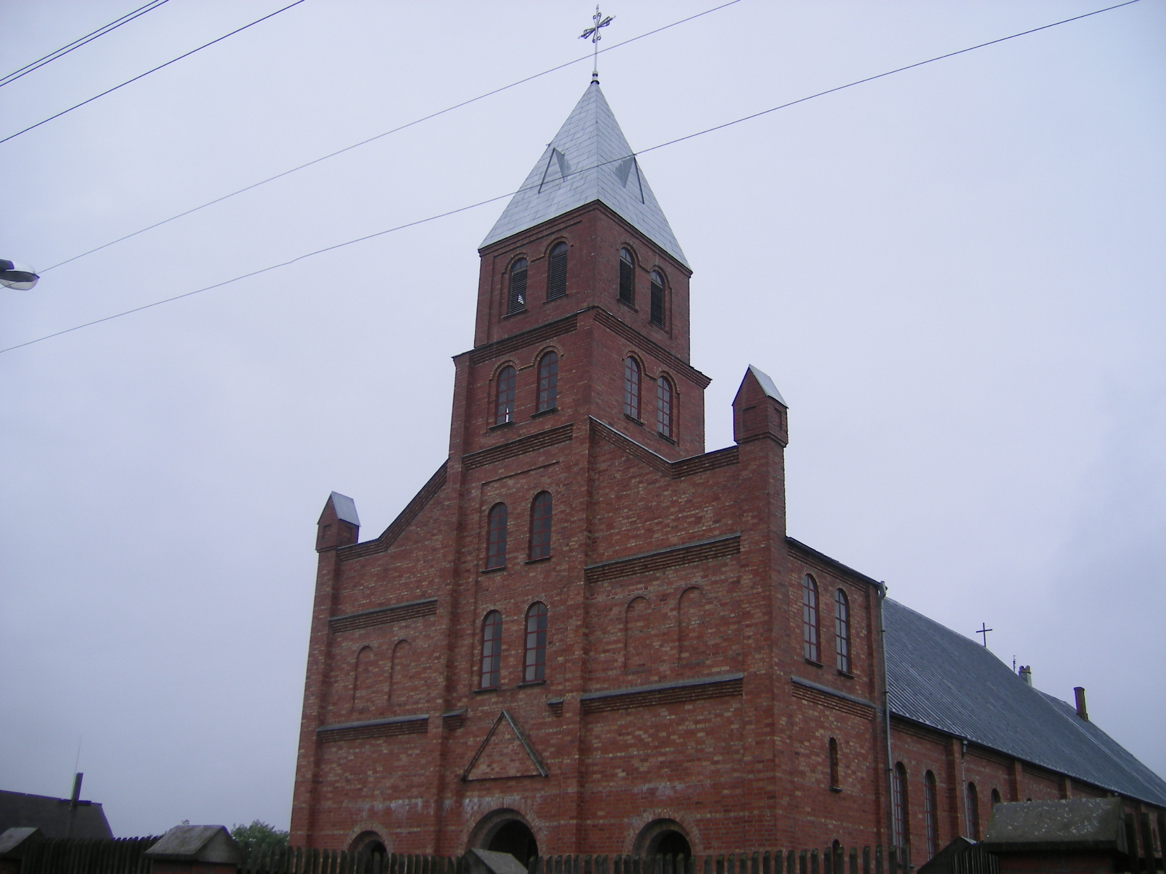 Svislach (Hrodna Oblast), Catholic church